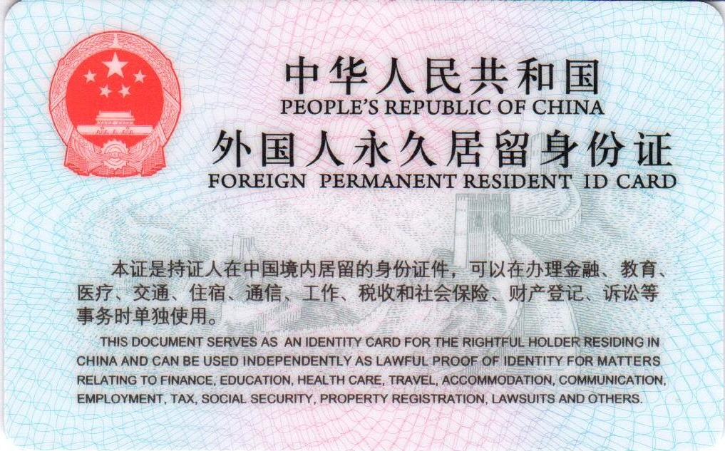 The front side of People's Republic of China Foreign Permanent Residence ID Card